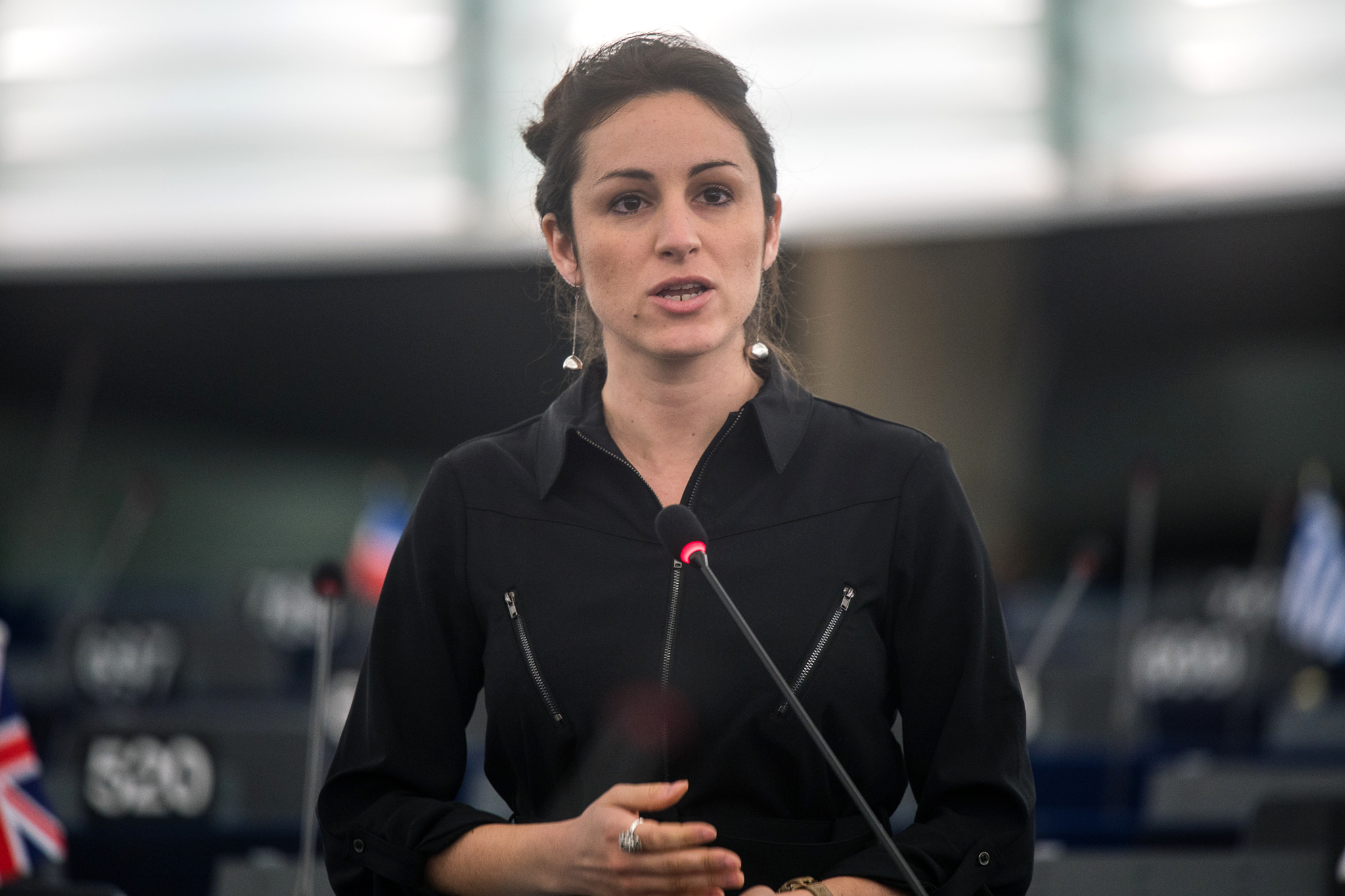 Read our Top Story about climate change here: This photo is free to use under Creative Commons license CC-BY-4.0 and must be credited: "CC-BY-4.0: © European Union 2019 – Source: EP". No model release form if applicable. For bigger HR files please contact: webcom-flickr(AT)